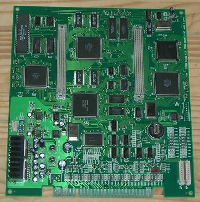 A Seibu SPI motherboard with no cartridge installed.